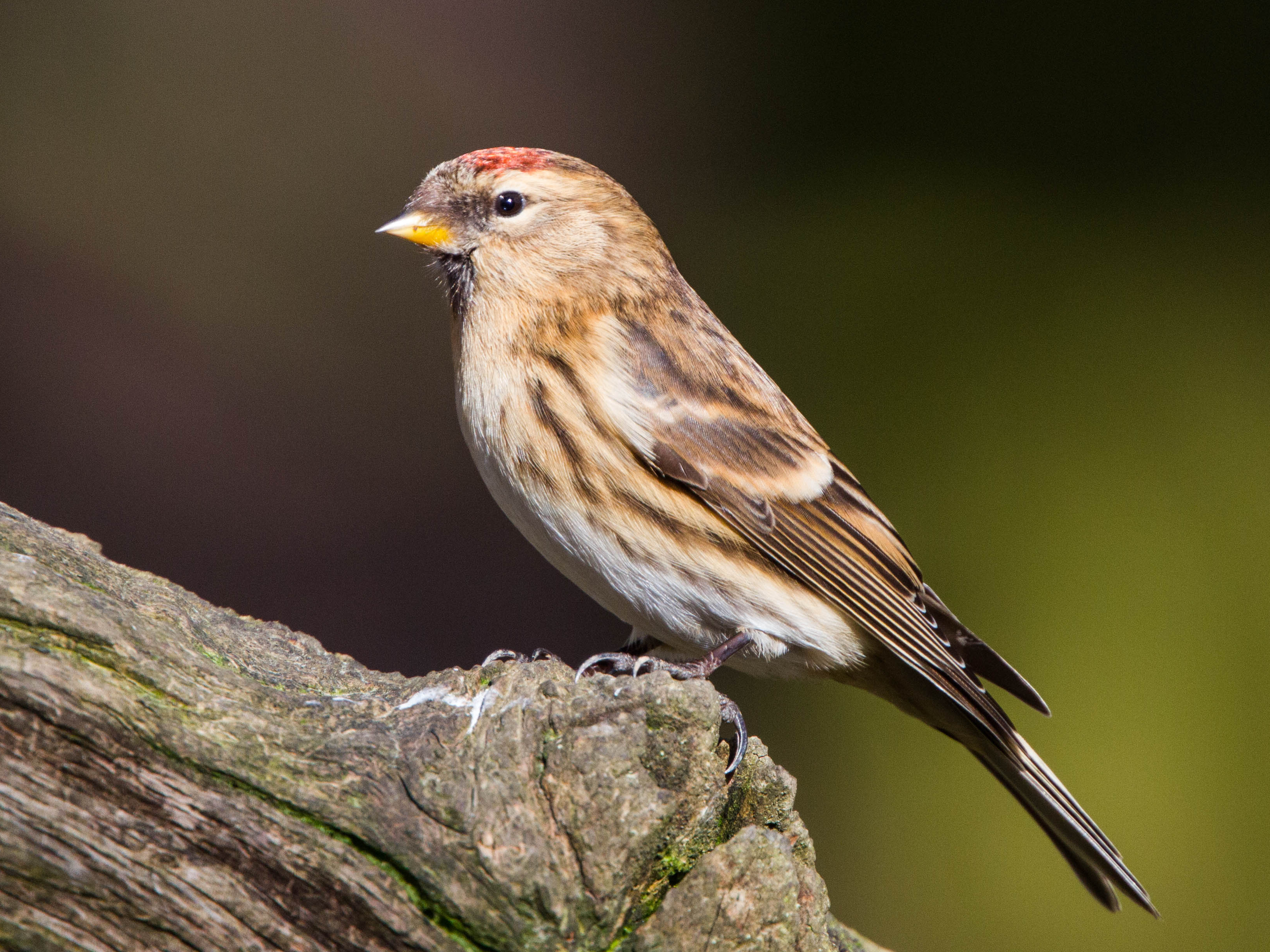 A female Lesser Redpoll in Horsham, UK.